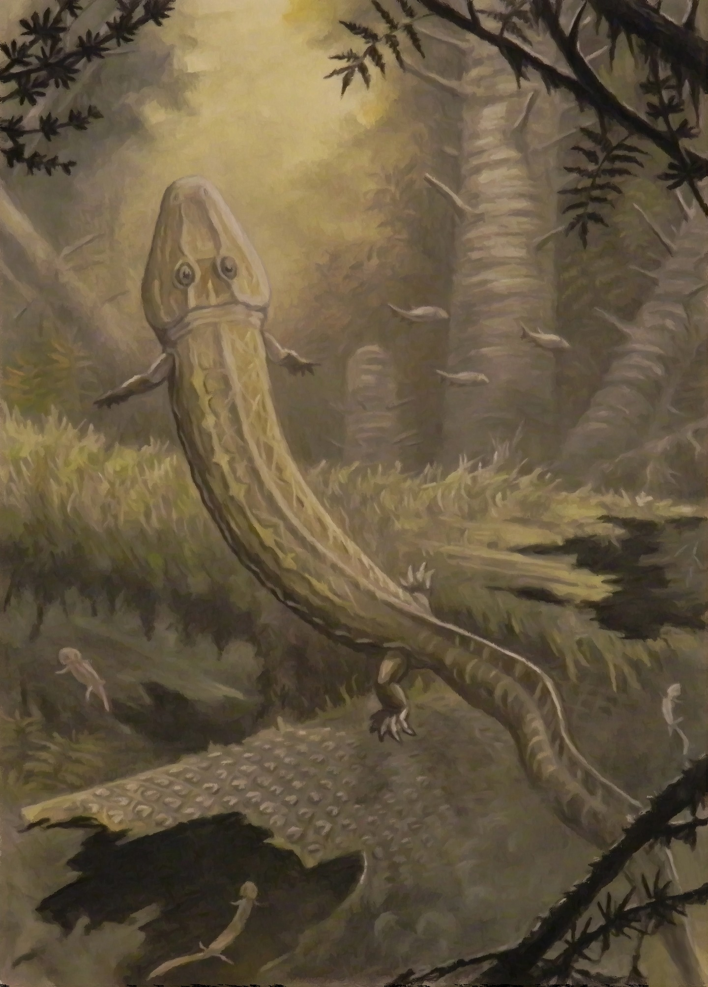 Illustration of Eogyrinus attheyi.